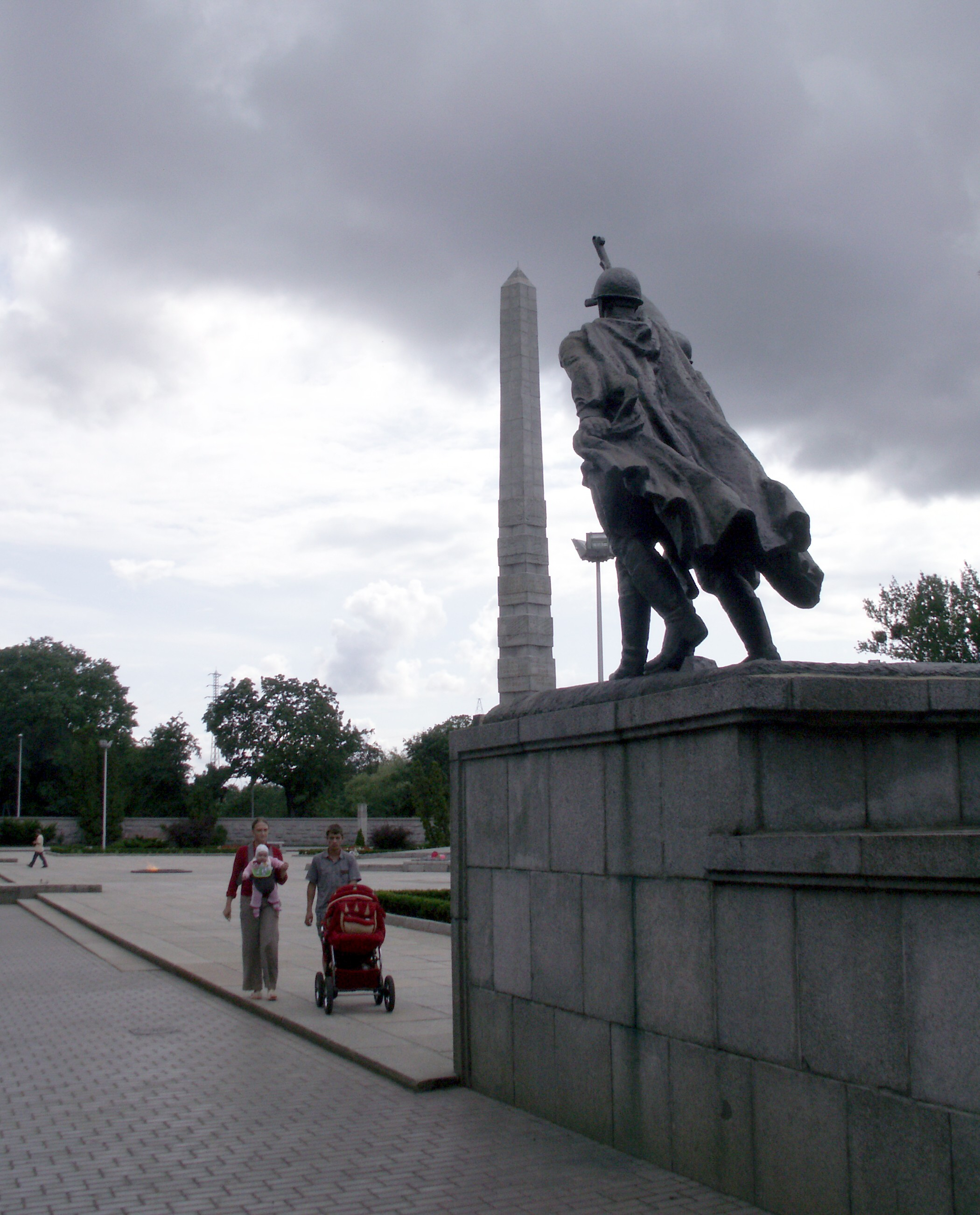 Memorial monument in Kaliningrad